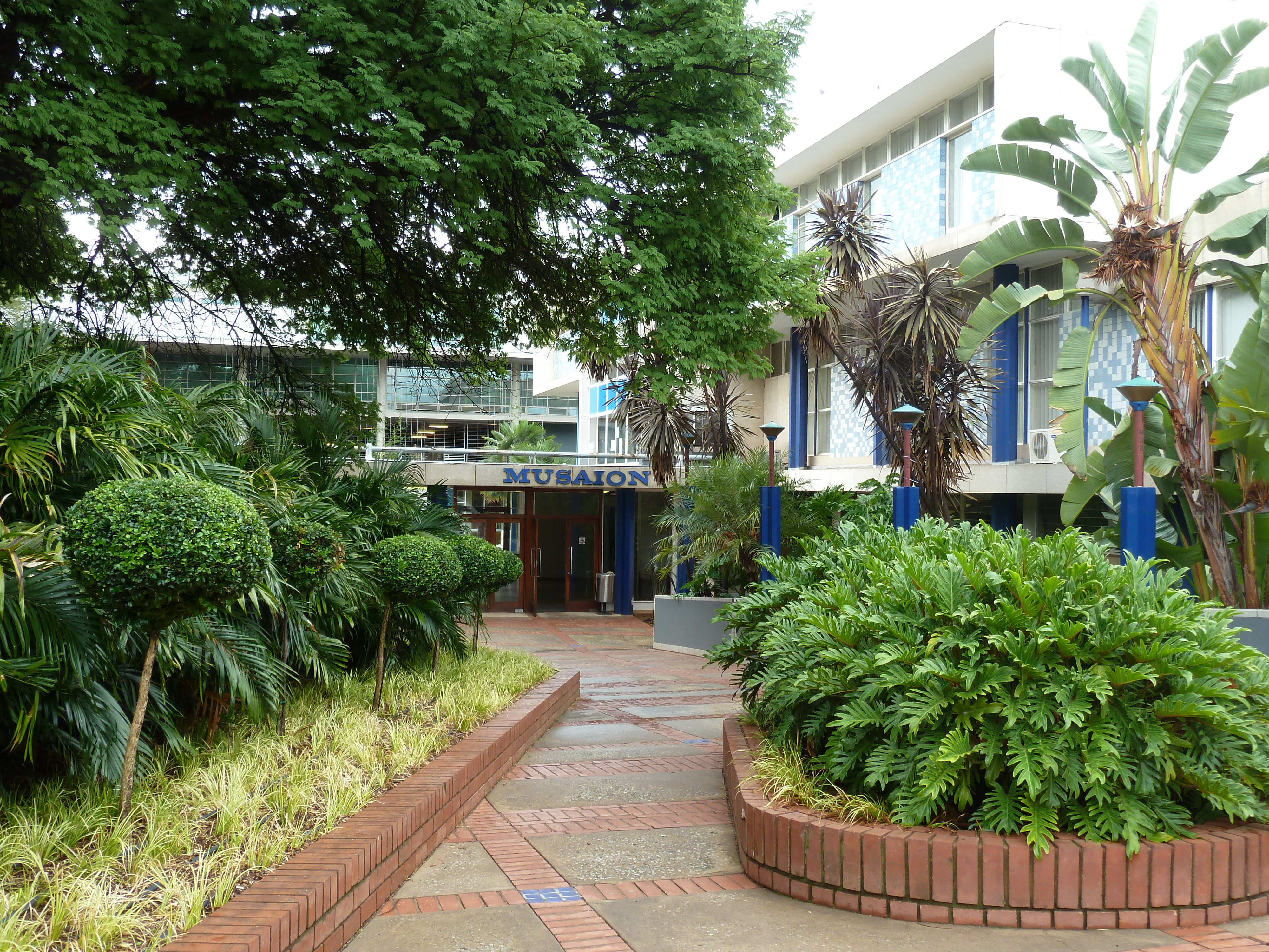 Musaion entrance at the University of Pretoria